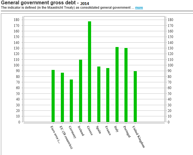 Gross Debt of European Countries in 2014 based on data from Eurostat